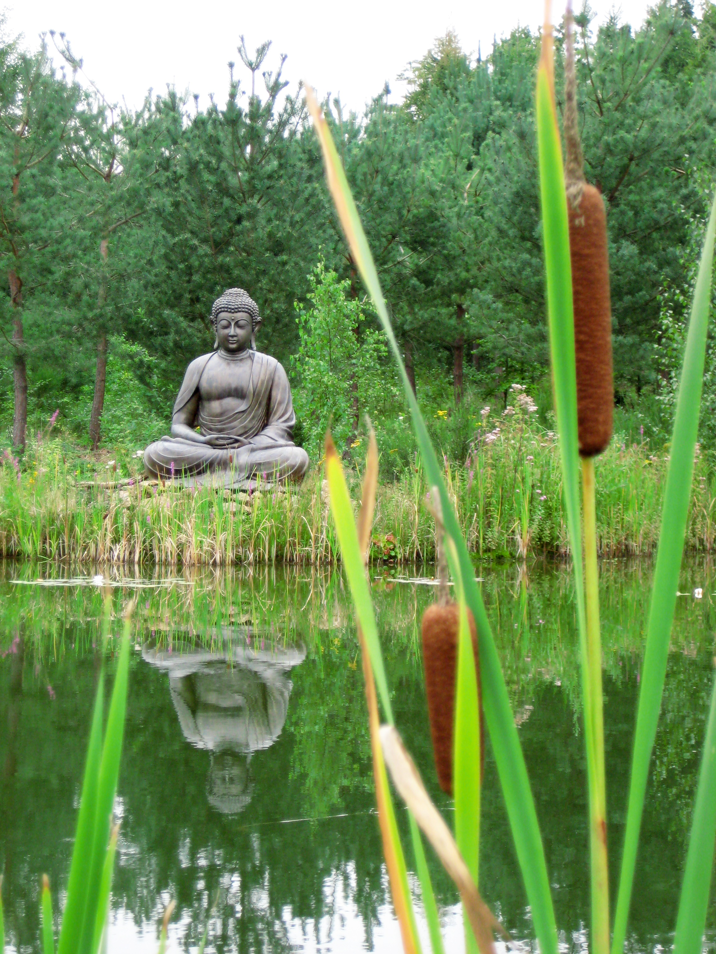 The Nepal Himalaya Pavillon from the Expo 2000, rebuilt with a small botanical garden at Wiesent near Regensburg